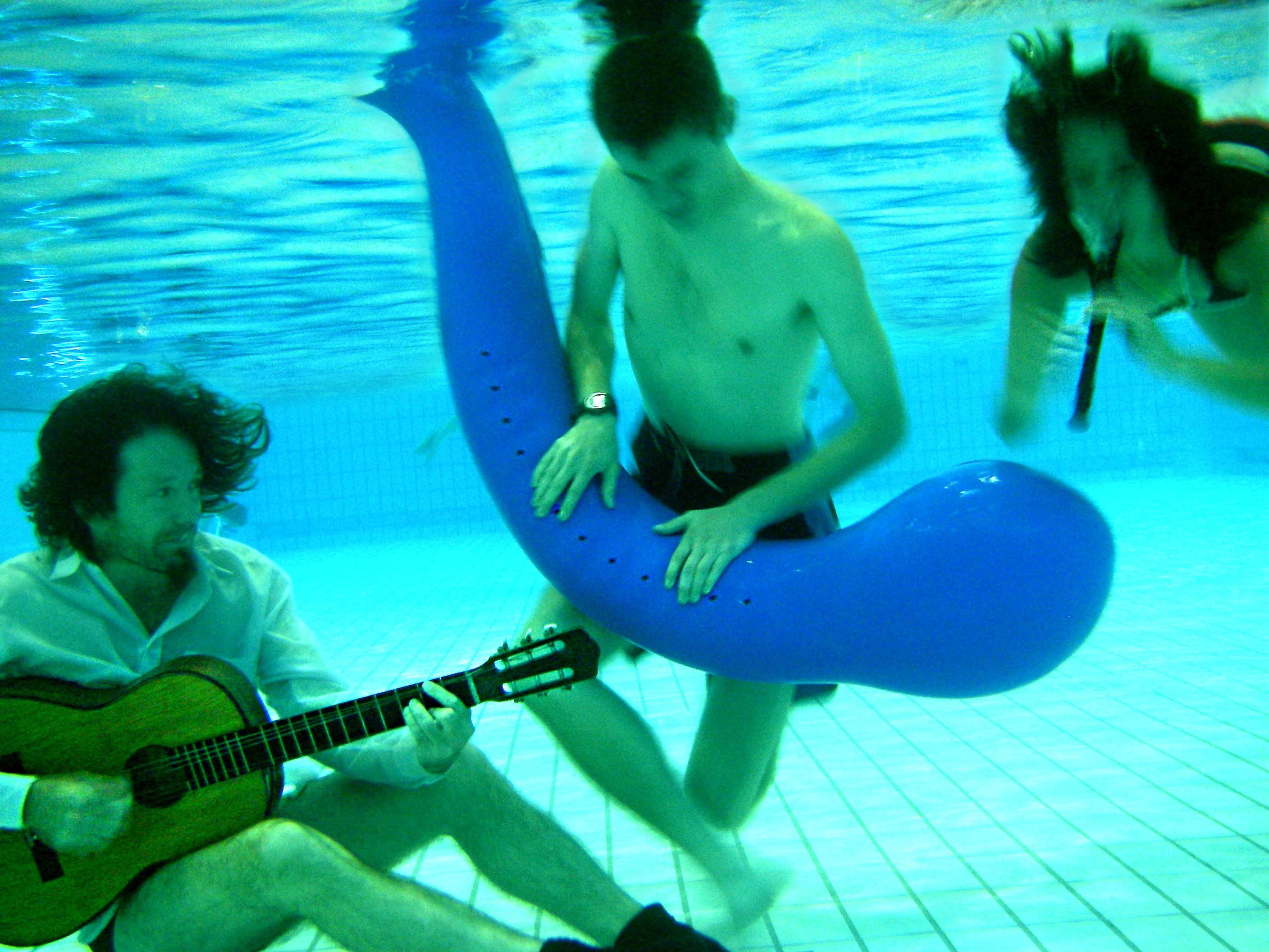 A guitar, a hydraulophone and a flute being played underwater.